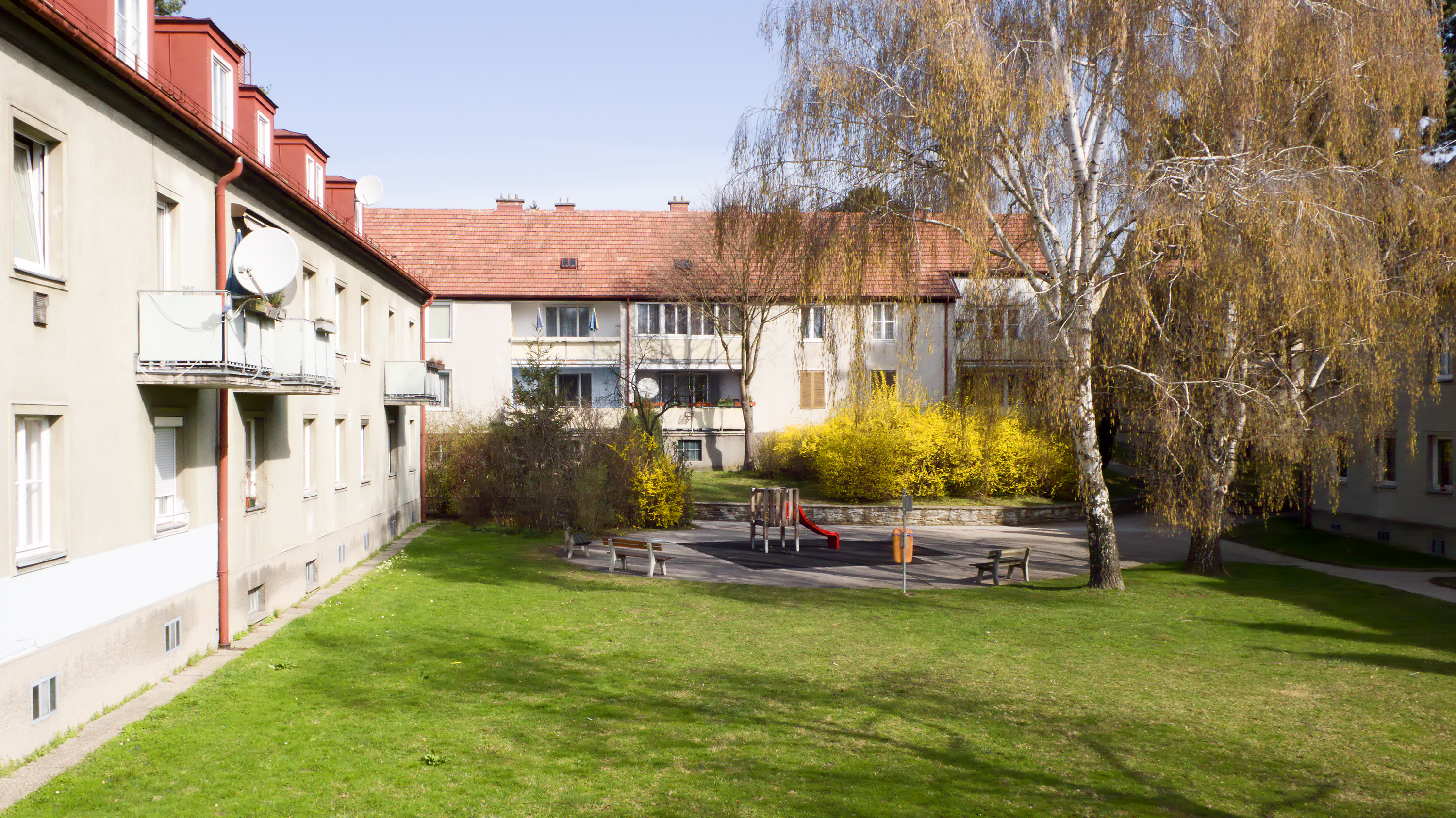 Kongresssiedlung in Vienna Hietzing